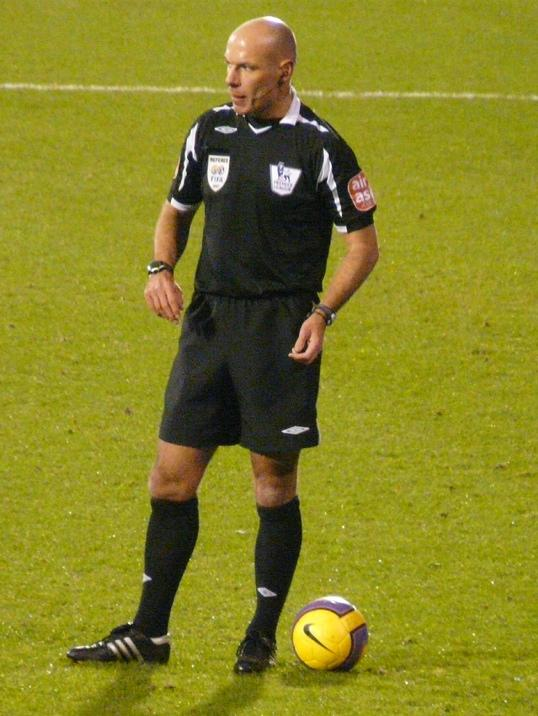 English football (soccer) referee Howard Webb